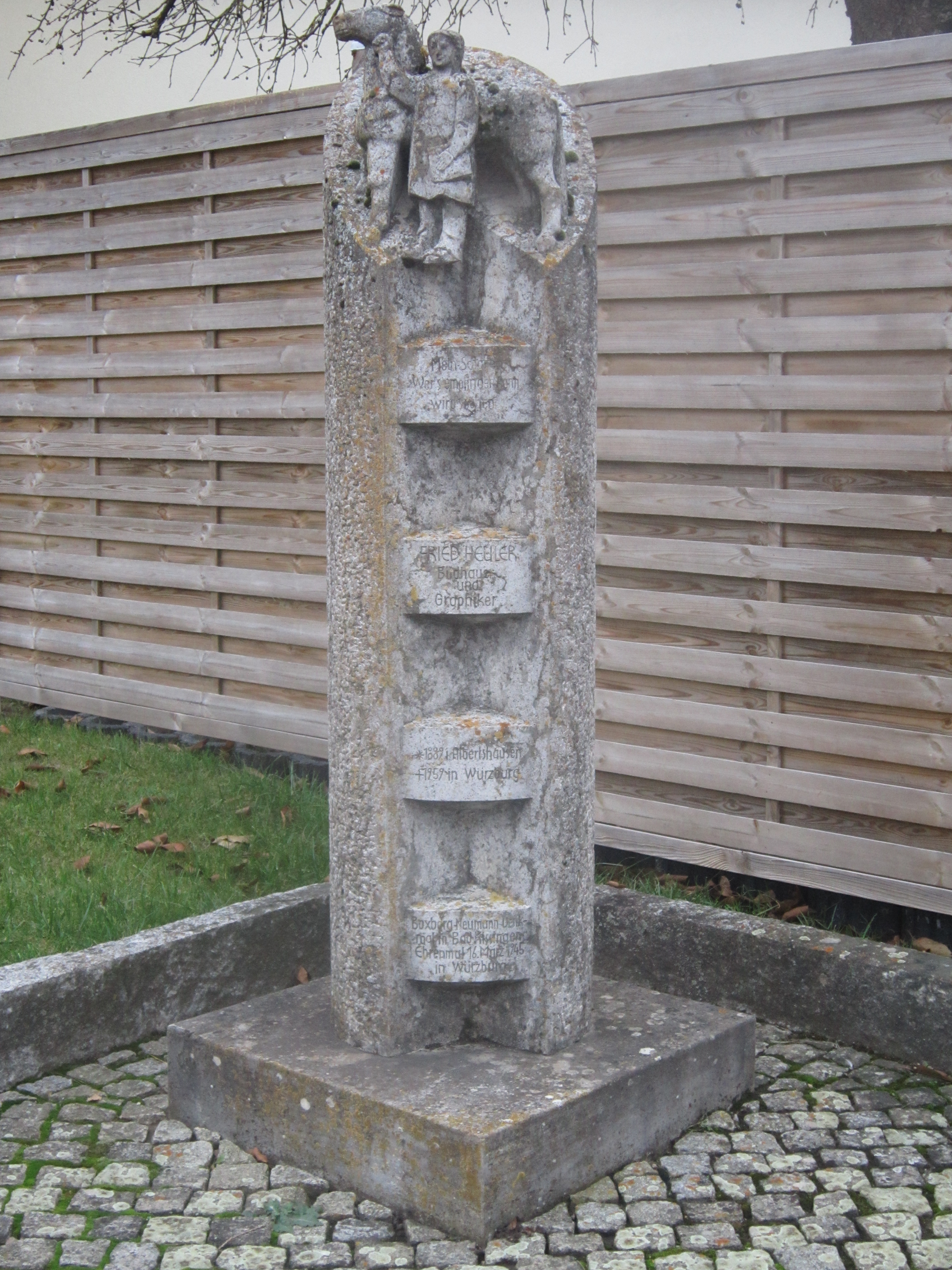 Memorial for the sculptorer Fried Heuler in his birth place in Albertshausen, a quarter of the German spa town of Bad Kissingen in Lower Franconia (Bavaria) (Address: Albertshausener Straße).